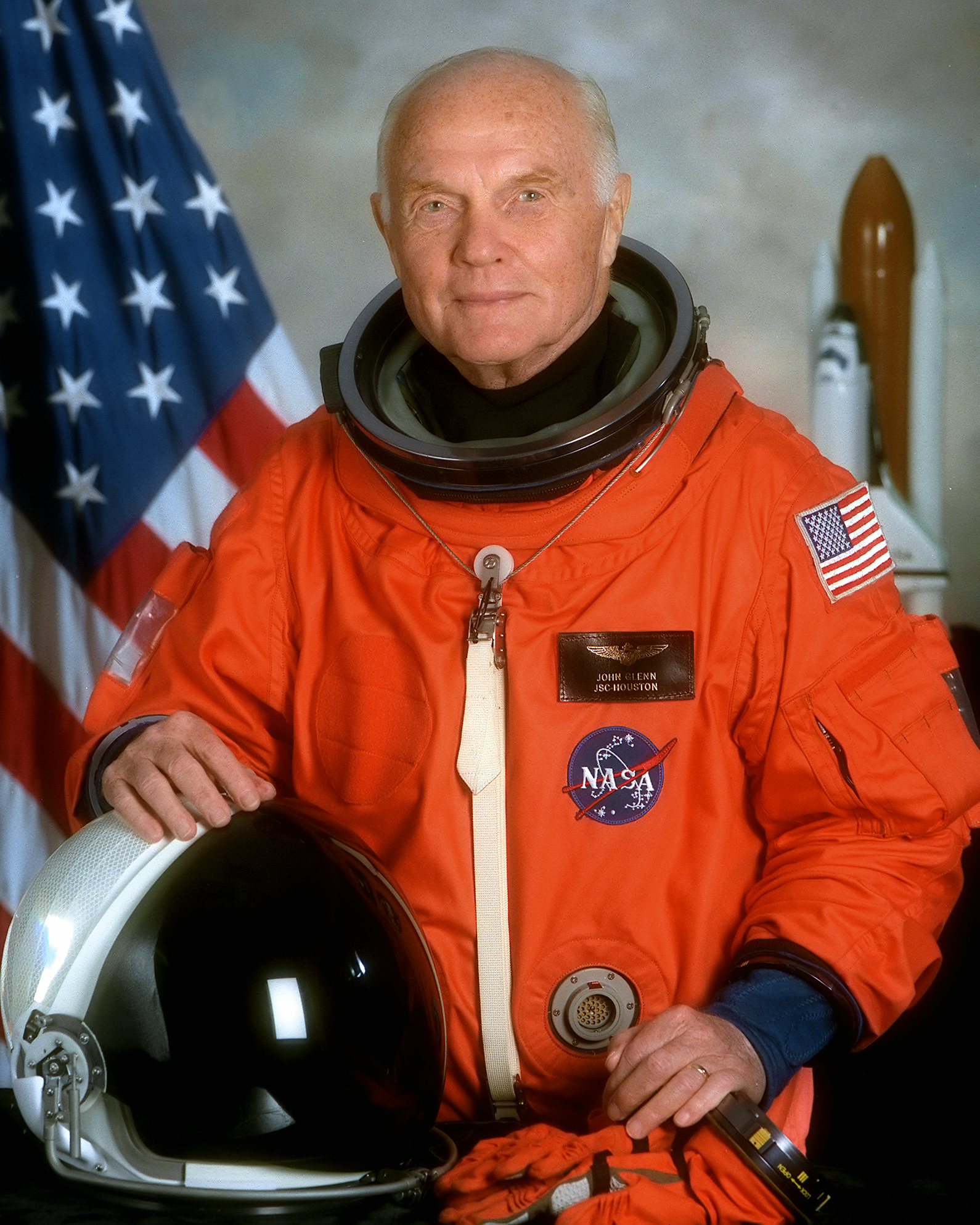 John Herschel Glenn Jr. (born July 18, 1921, in Cambridge, Ohio,) is a former American astronaut, Marine Corps fighter pilot, and United States Senator. He was the third American to fly in space and the first American to orbit the earth. This photo for his second space flight on October 29, 1998, on Space Shuttle Discovery's STS-95.